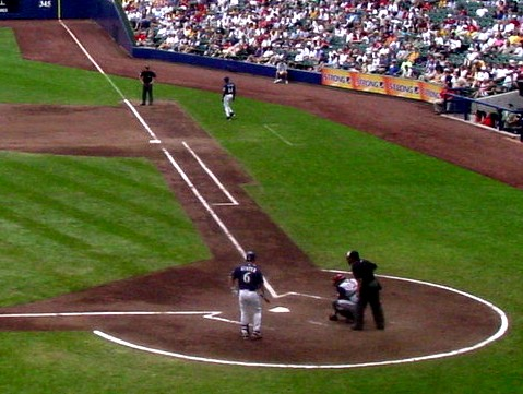 This picture is made from Image:Miller Park.jpg this_version